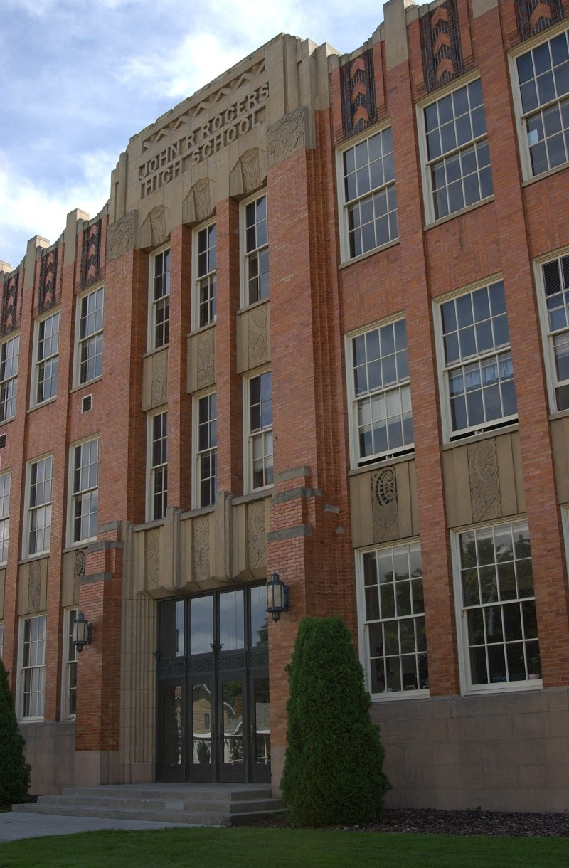 John R. Rogers High School in Spokane, Washington, facing north on Wellesley Avenue. Displaying Art Deco style, features, and façade, the construction of the school was completed in 1932 and listed on the National Register of Historical Places in January 2011.